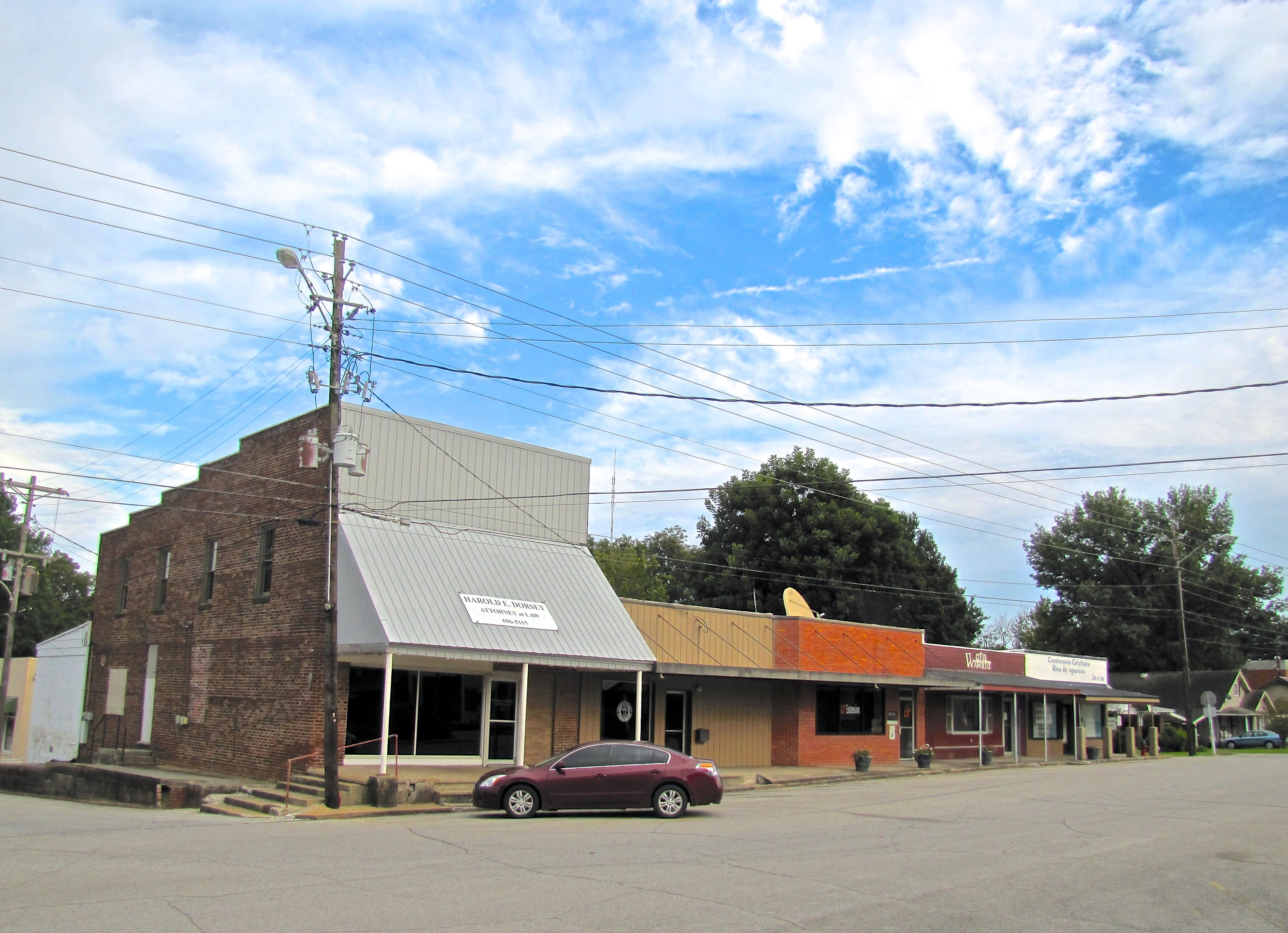 Buildings along the southeastern part of the courthouse square (Johnson Street) in Alamo, Tennessee, United States.